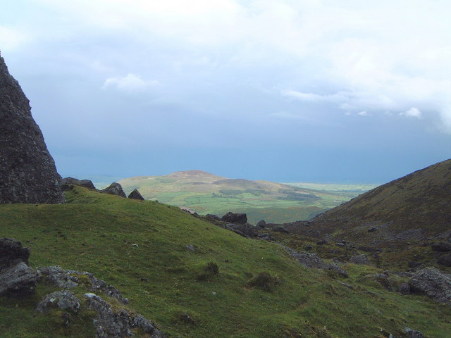 Boulder field at Lake Coumshingaun, Comeragh Mountains, Co. Waterford (with views to Croughaun Hill). This is part of the boulder field at the eastern end of Lake Coumshingaun (see image 1269857). The lake is an impressive corrie lake left over from the last ice age. In the distance is Croughaun Hill (grid reference S379 110). It is about 5 km away and has a summit height of 391 metres.